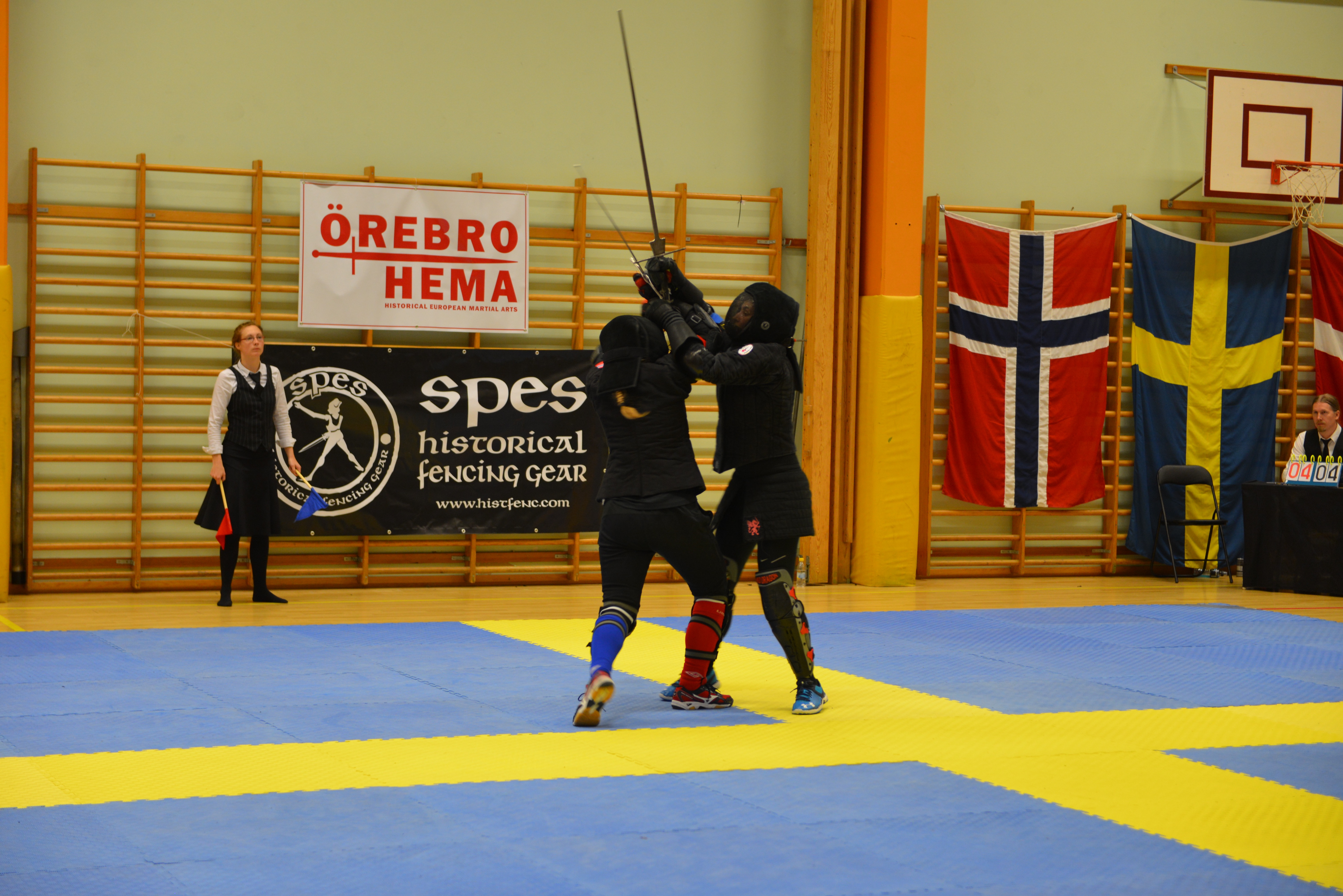 Image from Örebro Open 2015 hema tournament in Kristinehamn, Sweden.